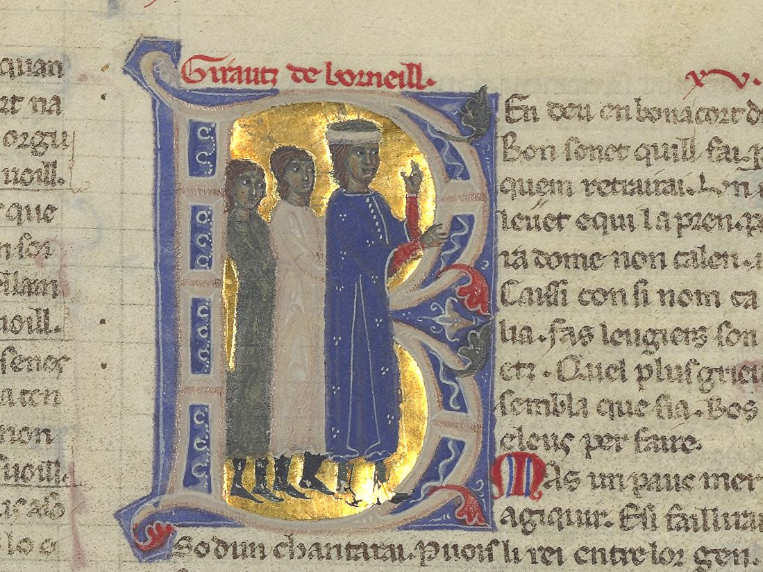 Coloured version of File:Giraut de Borneill.jpg.